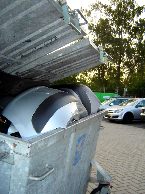 Dumpster of a car company, showing interesting content for future dumpster diving.